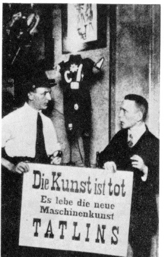 "Art is dead…," Grosz and Heartfield at the Dada fair in Berlin, 1920.